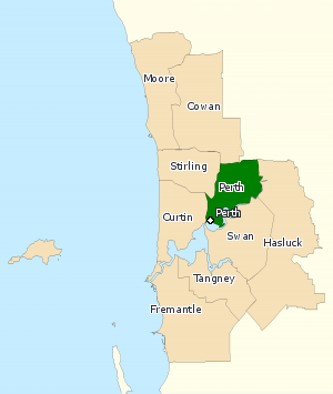 This image incorporates data that is: © Commonwealth of Australia (Australian Electoral Commission) 2009 Division of Perth 2010